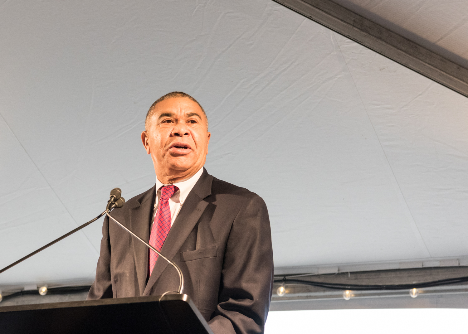 The Honorable Wm. Lacy Clay -- Representative from Missouri